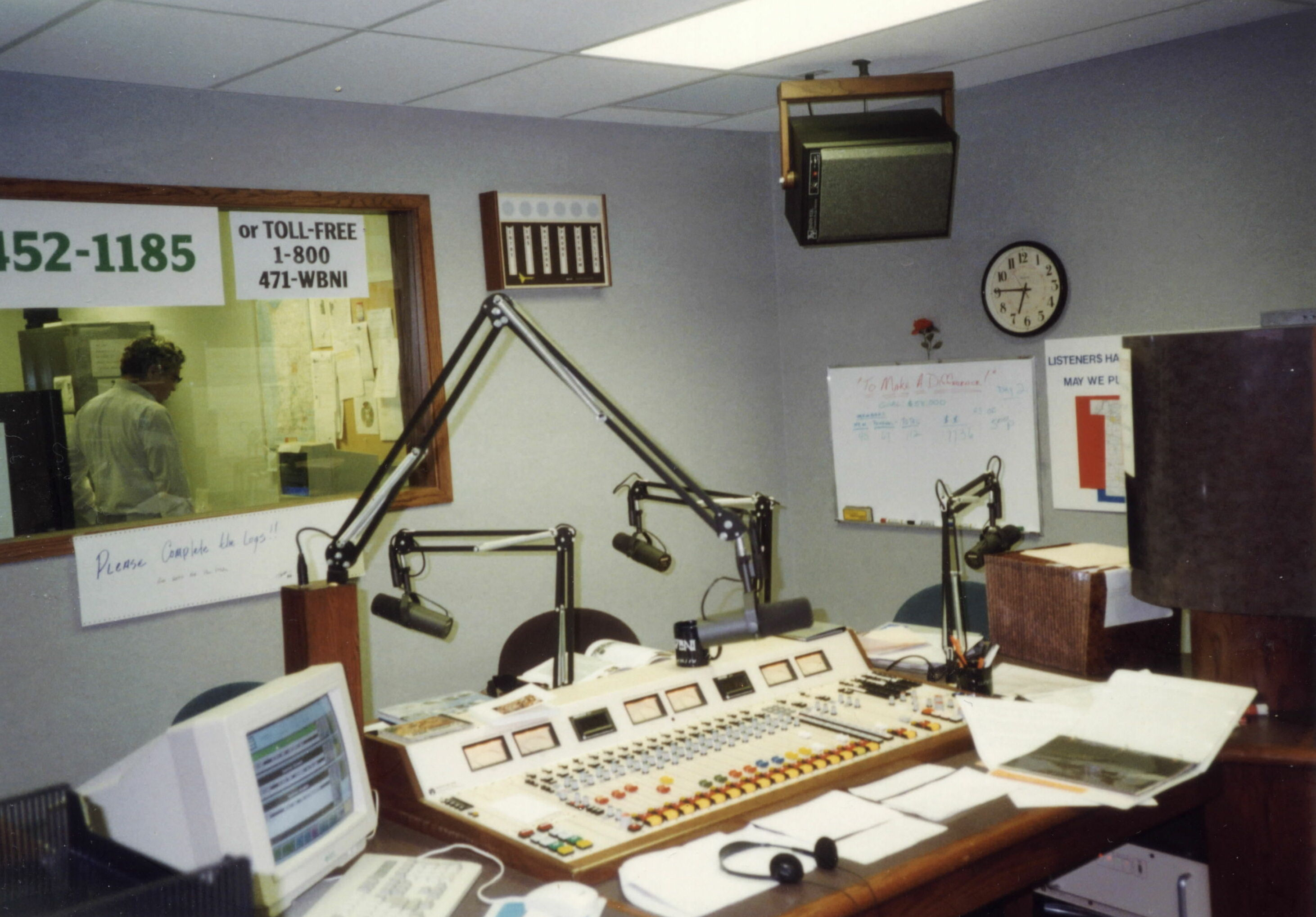 Radio studio of WBNI , showing console